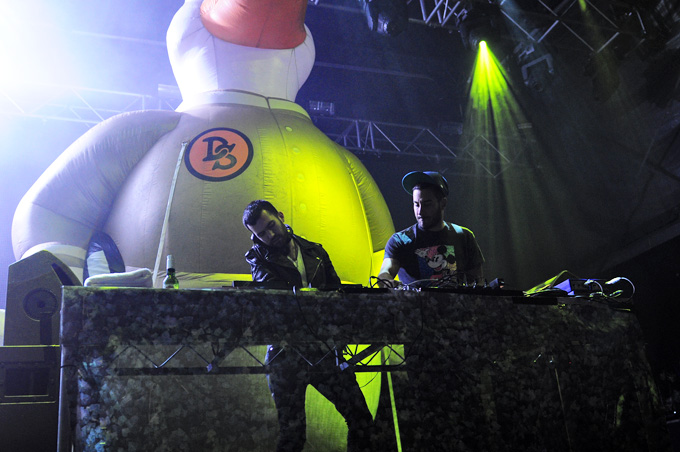 Parklife Festival 2011